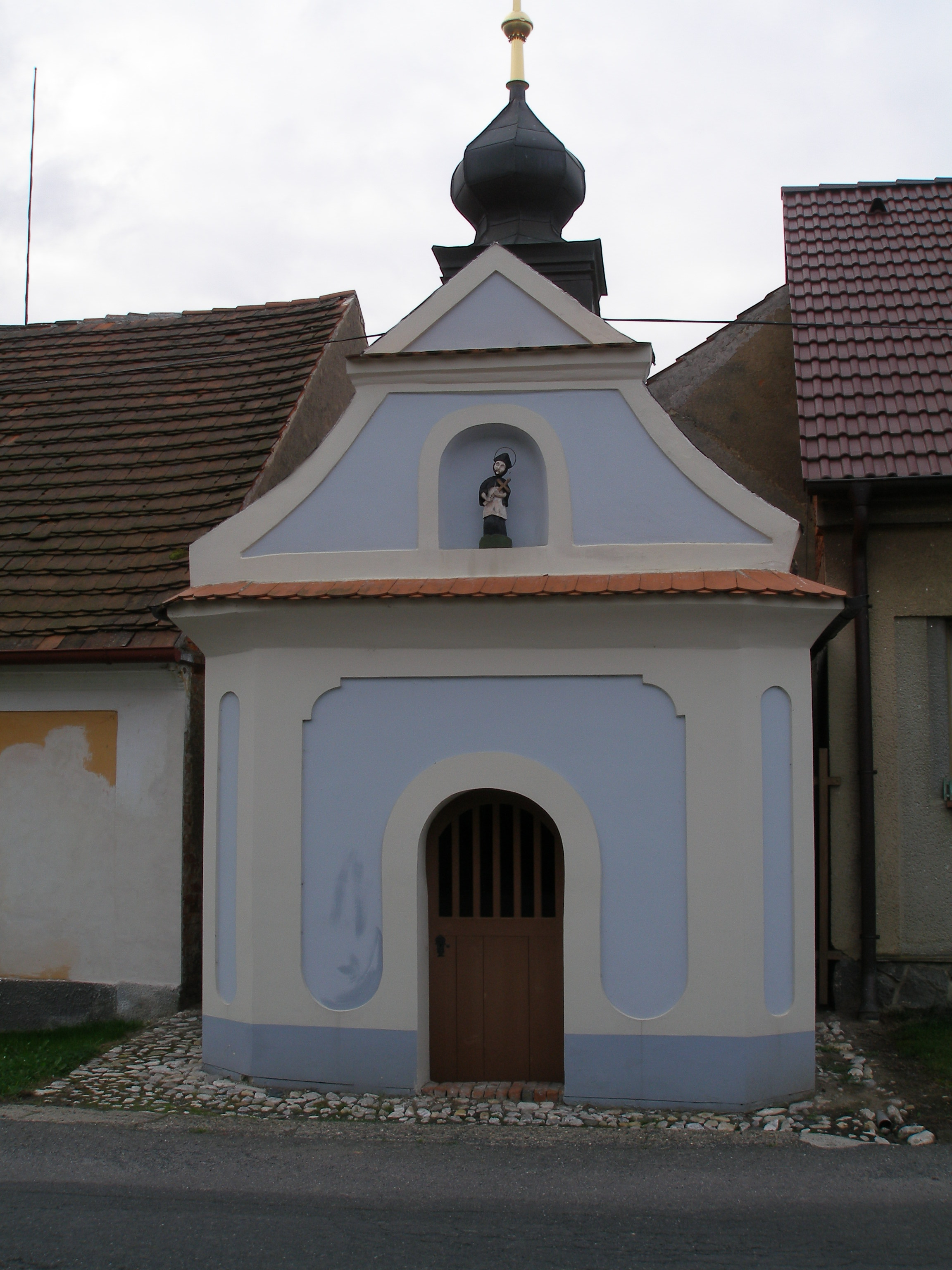 The chapel in Biřkov